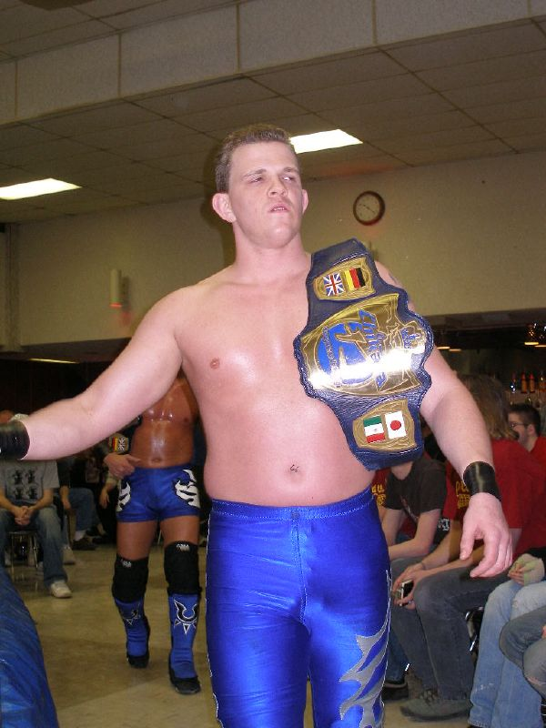 Professional wrestler Icarus as one-half of Chikara's Campeones de Parejas in February 2007, in Hellertown, PA.